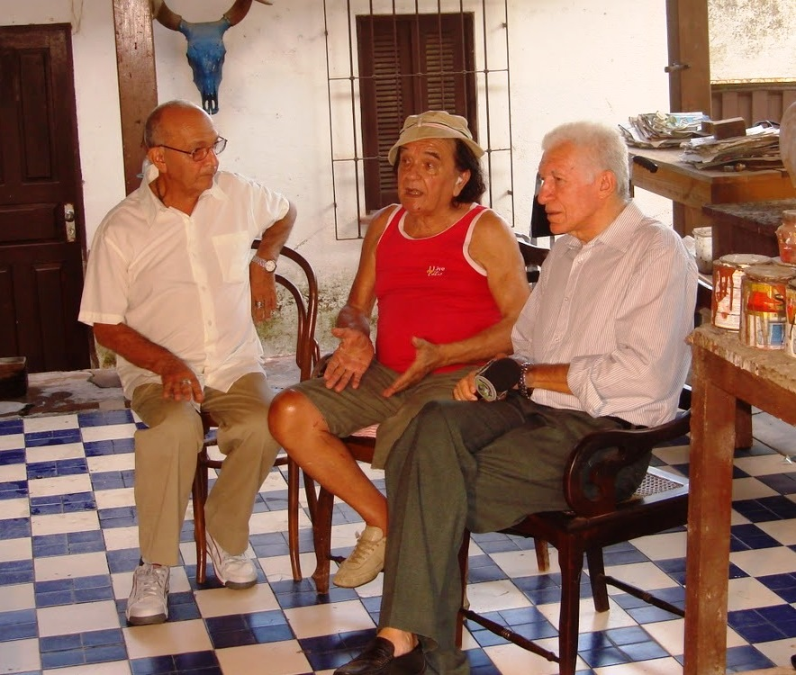 Professor Fernando Dib (left) and Professor Cinéas Santos (right) visiting Afrânio Pessoa.